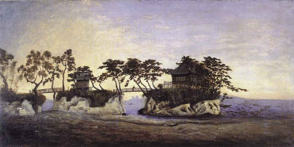 Godaido at Matsushima by Takahashi Yuichi, Miyagi Museum of Art, Sendai, Miyagi, Japan